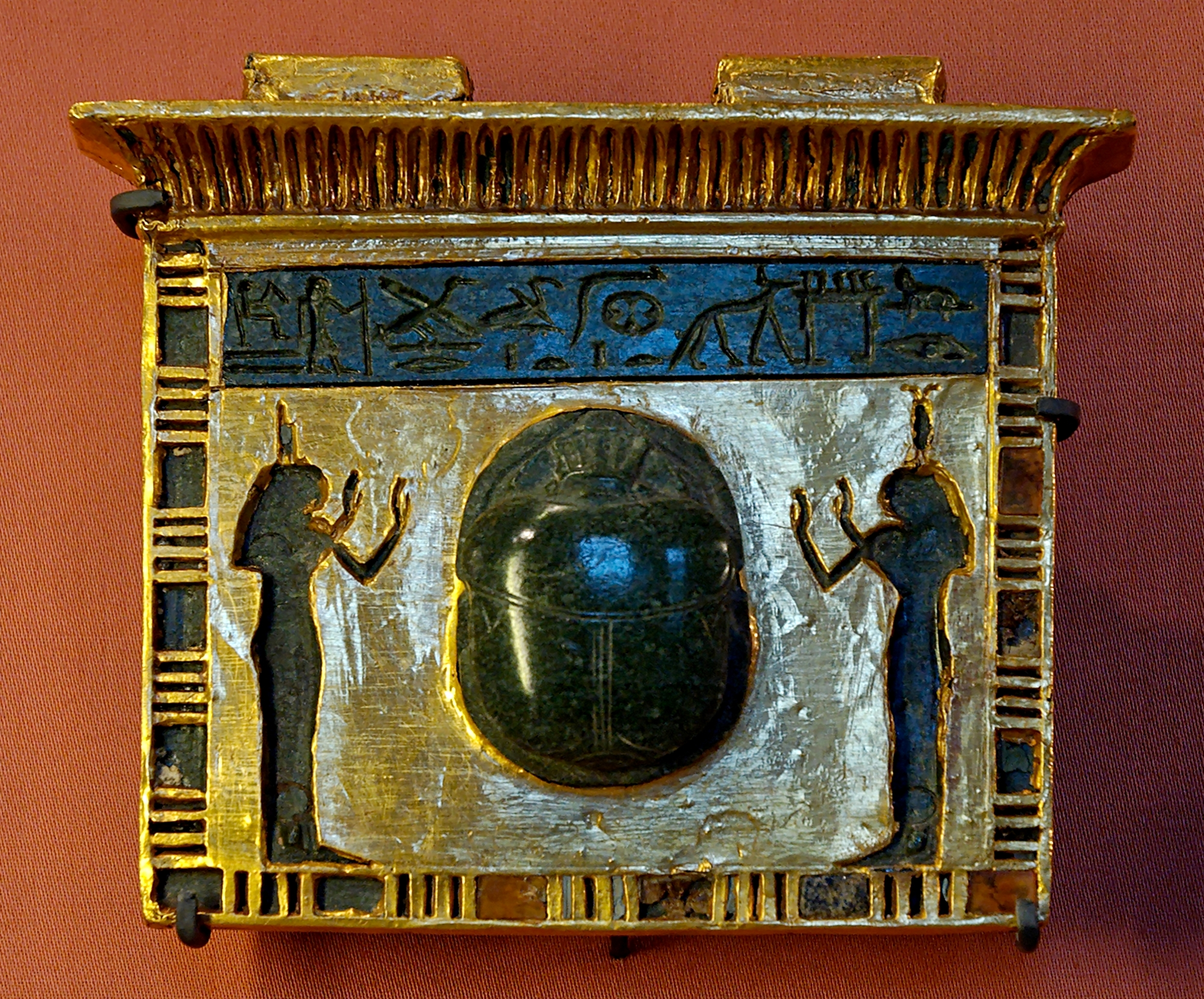 Amulet bearing the name of Vizier Paser. Gold, gold leaf and amazonite, New Kingdom.